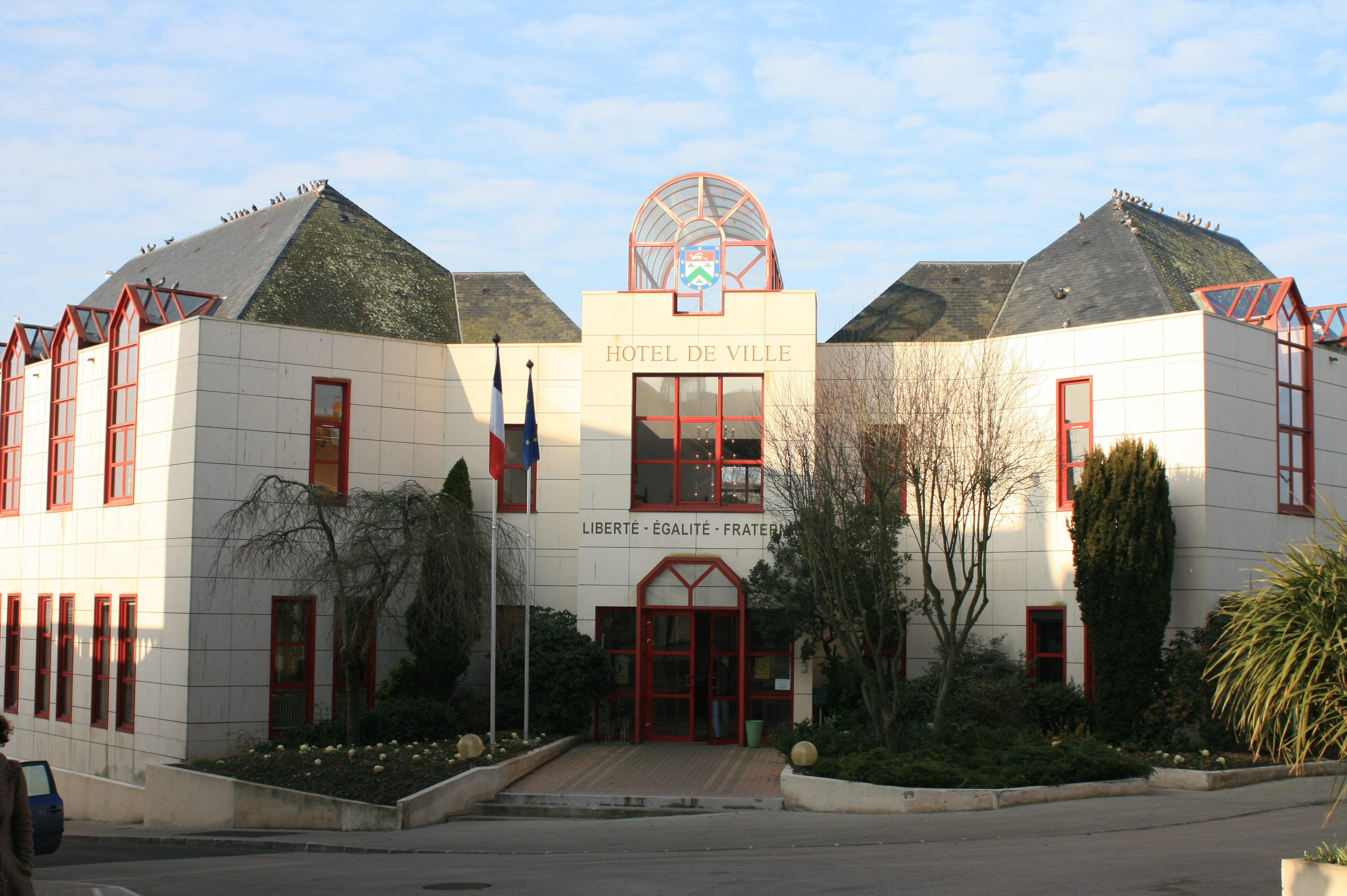 City hall of Savenay, Loire-Atlantique, France